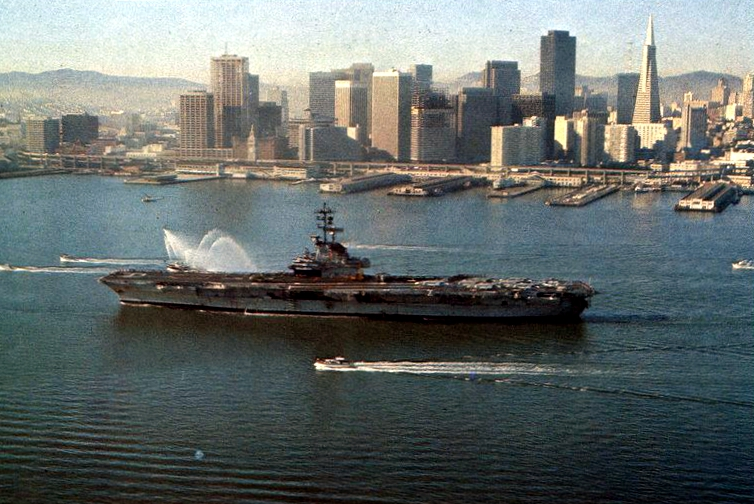 The U.S. Navy aircraft carrier USS Hancock (CV-19) returning from her last deployment to San Francisco, California (USA). Hancock, with assigned to Carrier Air Wing 21 (CVW-21), was deployed to the Western Pacific from 18 March to 20 October 1975.